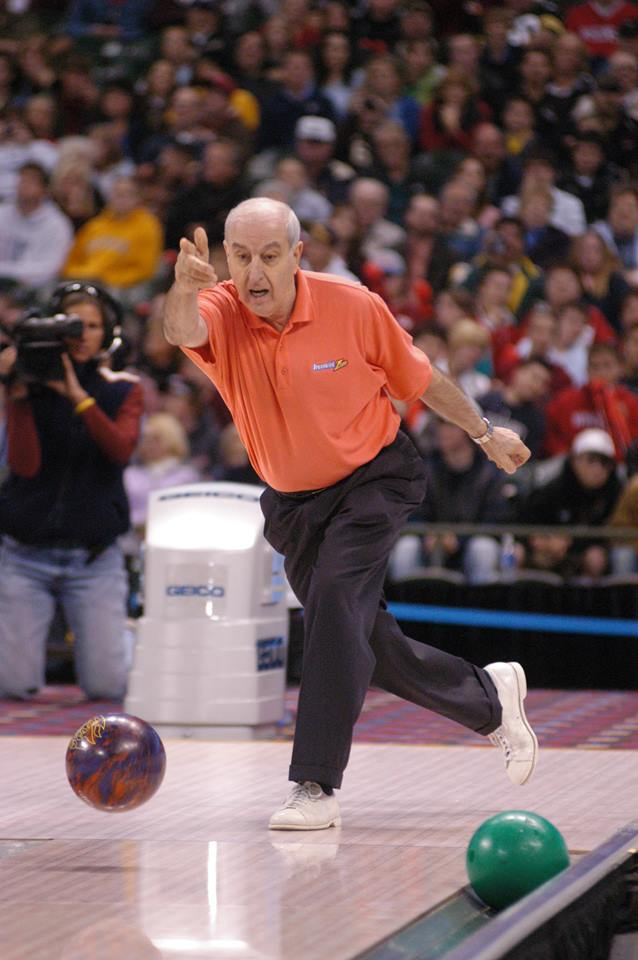 The photo is a picture of Carmen Salvino bowling circa 2015